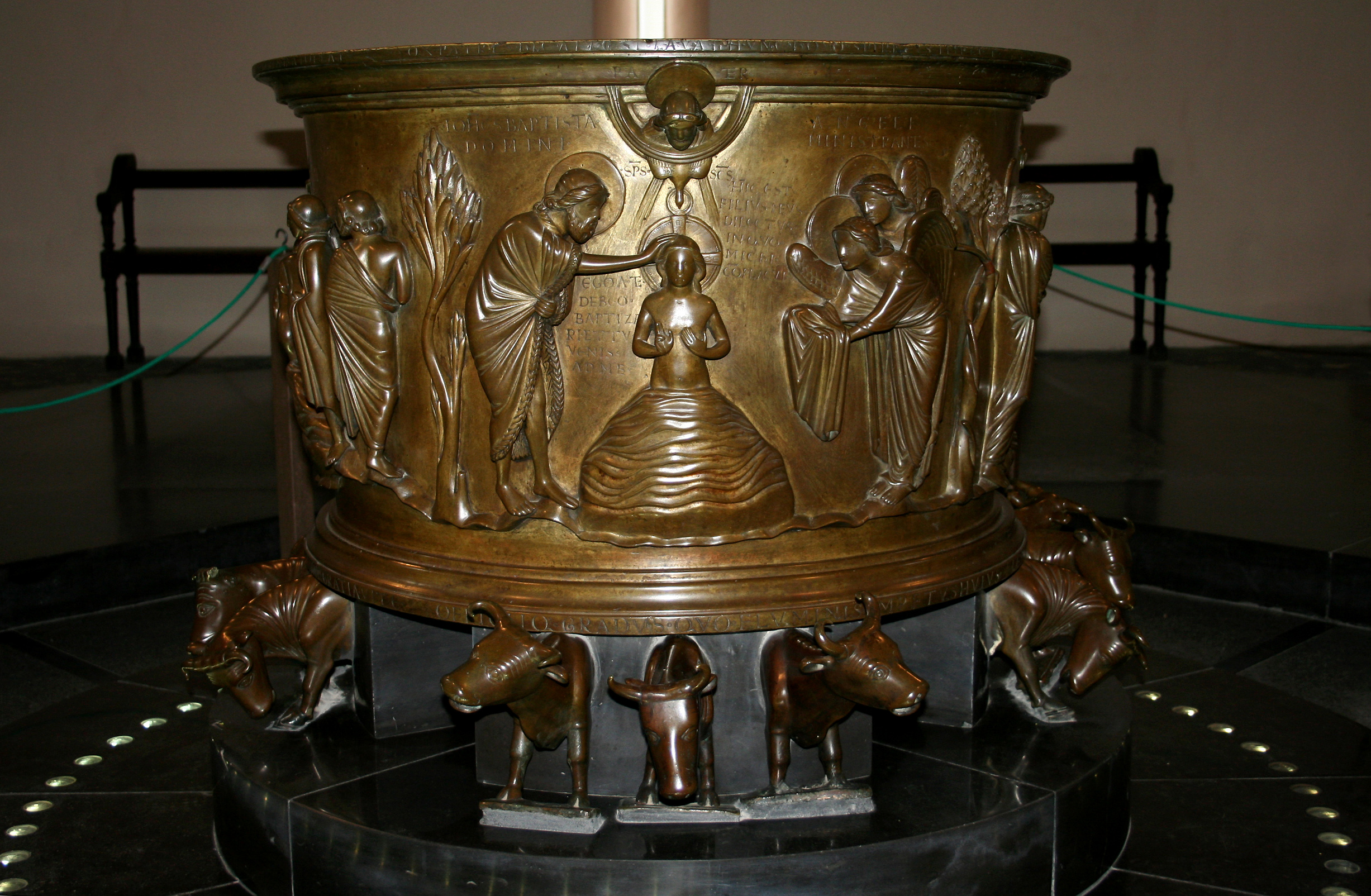 Liège (Belgium), Saint Bartholomew's Church - Baptismal font of Renier de Huy (begin of the XIIth century).